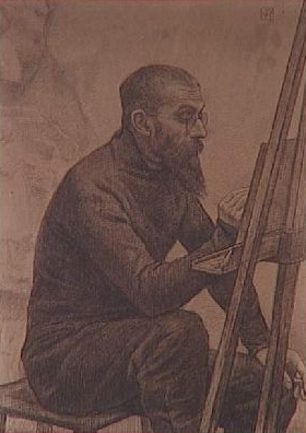 French sculptor and Alexandre Charpentier (1856-1909) by Théo van Rysselberghe (1862-1926)